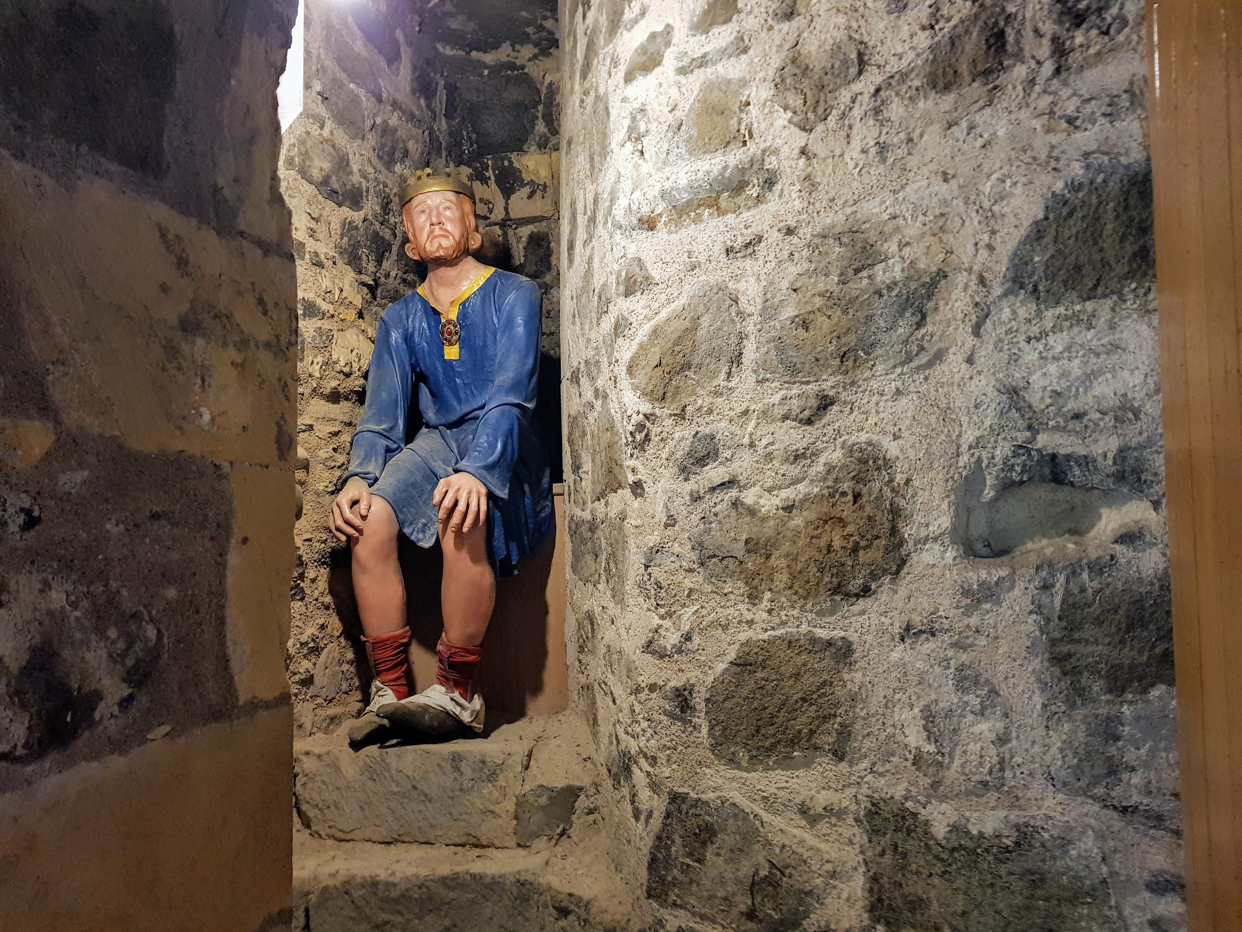 Carrickfergus Castle, Carrickfergus, Northern Ireland